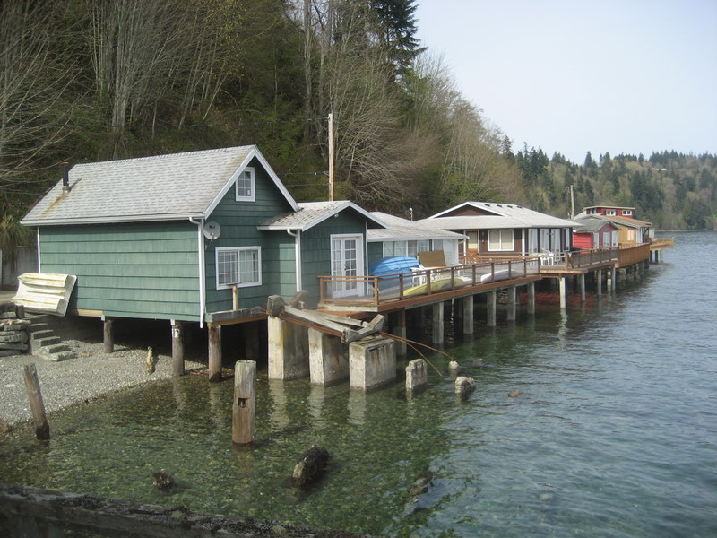 Some of the many beach cottages built on piers over Puget Sound in Fragaria, Washington in Kitsap County along Colvos Passage. Fragaria, Washington located along Colvos Passage in Kitsap County was a traditional ferry stop in the early 1900s, including the well known 'Virginia V which served the area from 1922 until 1938.